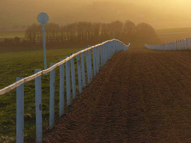 Mandown Gallops A view, shortly before sunset, down an all-weather gallop ascending from Maddle Road.